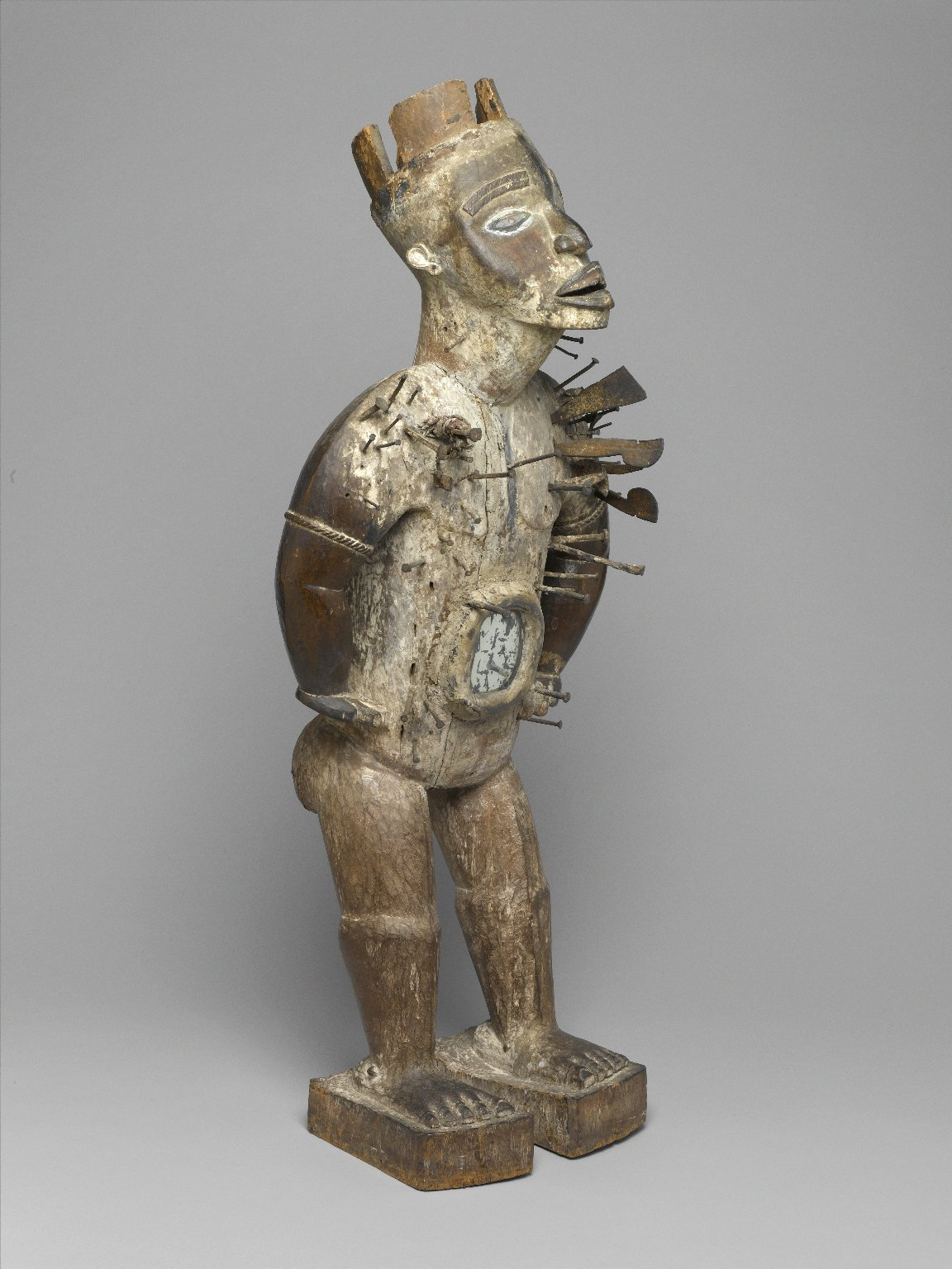 Image of a man, stuck with nails and knives. Mirror in navel. Free carved feet standing on a block. Hands at hips. Stained white in most parts. Four flat pronged high headdress. Open mouth with teeth and tongue showing. Bracelets around biceps. Condition: Good